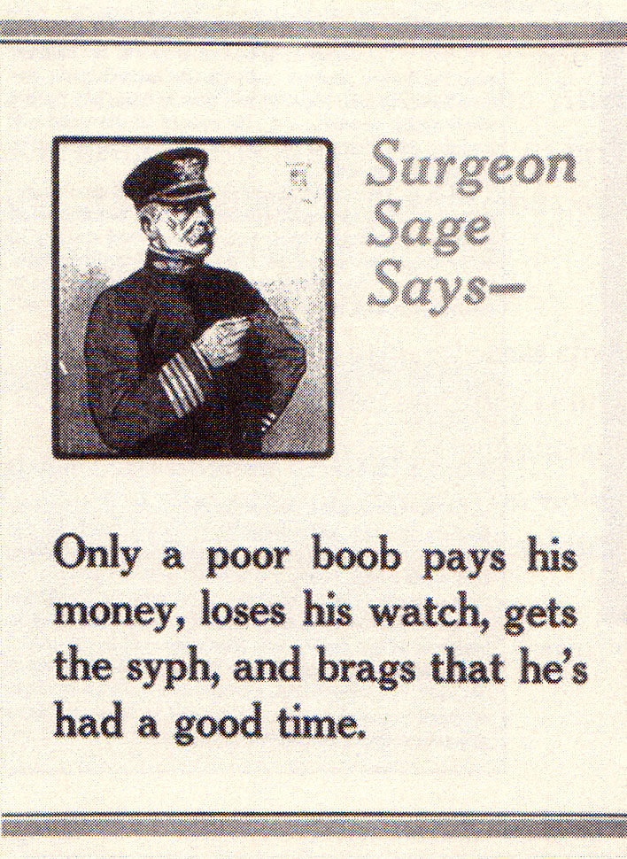 A poster promoting the U.S. military's WWI policy of abstinence to prevent the spread of sexually transmitted diseases.